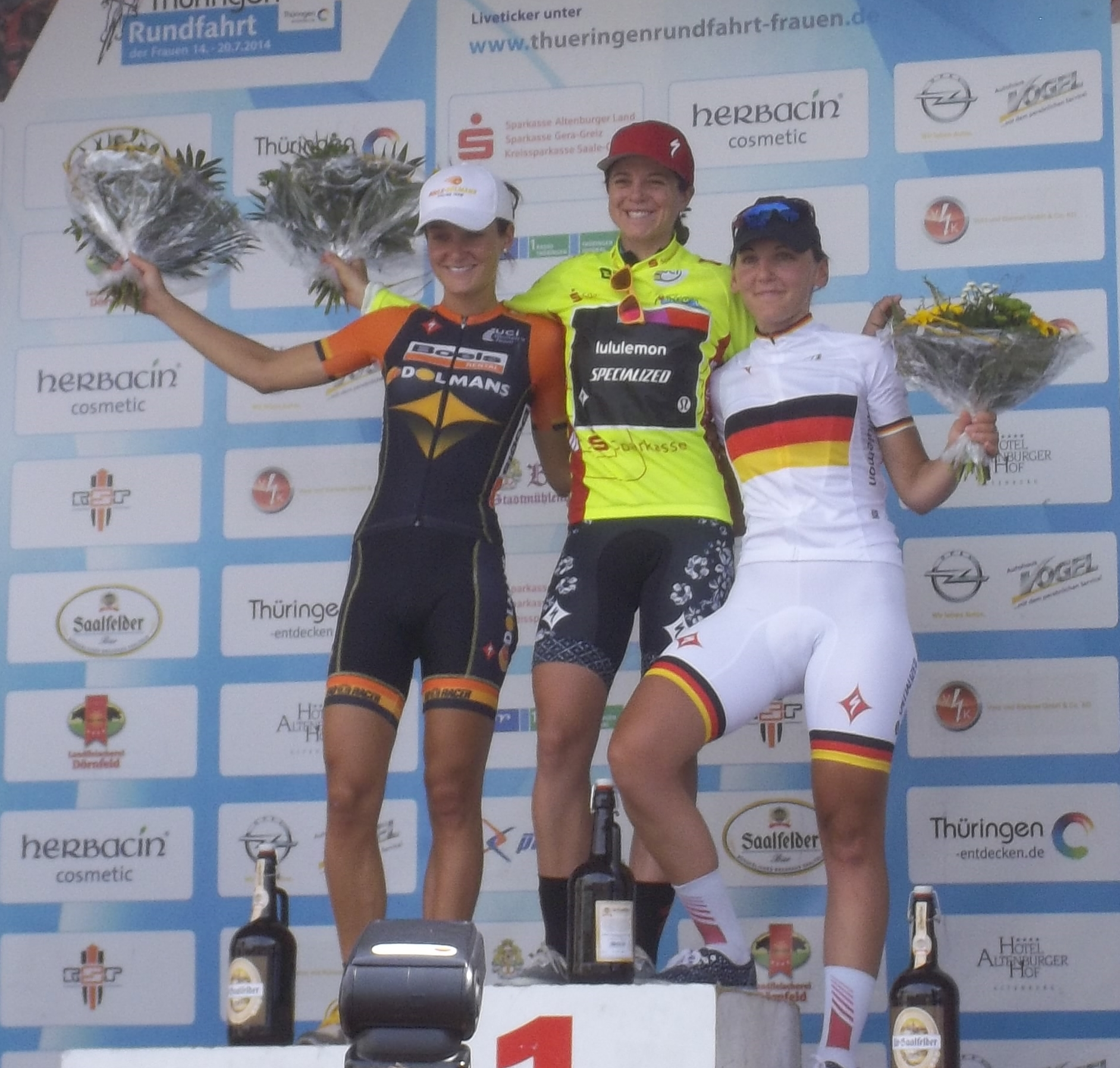 Final podium of the Thuringen Rundfahrt 2014